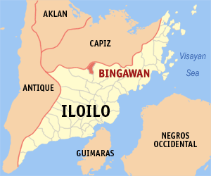 Map of Iloilo showing the location of Bingawan